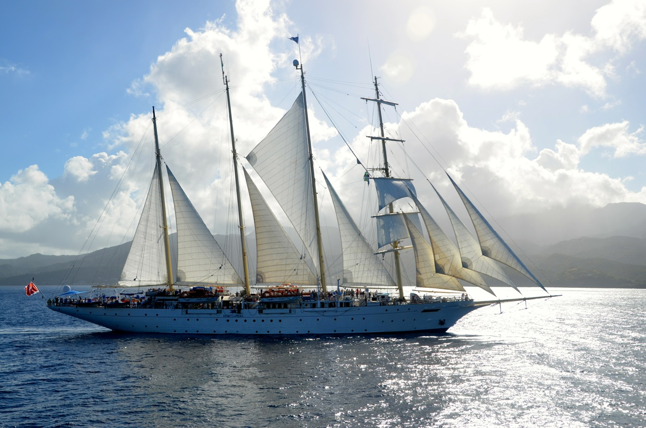 Side view of Star Clipper.